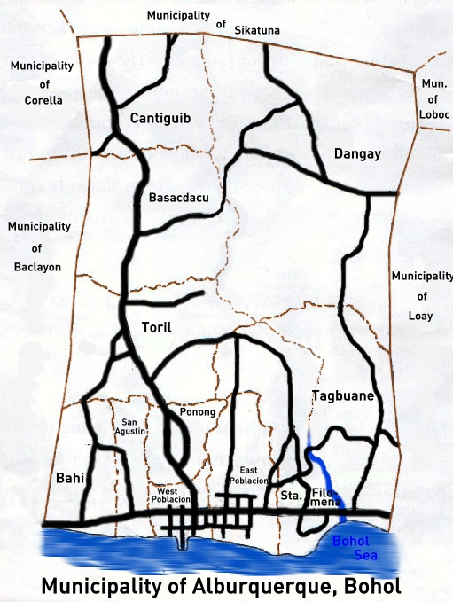 Map of Alburquerque, Bohol